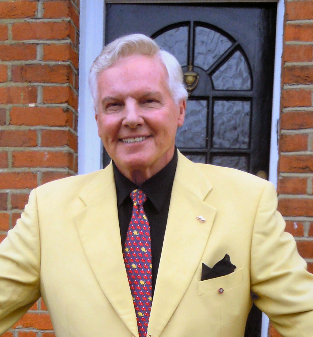 Jess Conrad OBE at the unveiling of an Aldershot Civic Society blue plaque for Arthur English at 22 Lysons Road in Aldershot in Hampshire